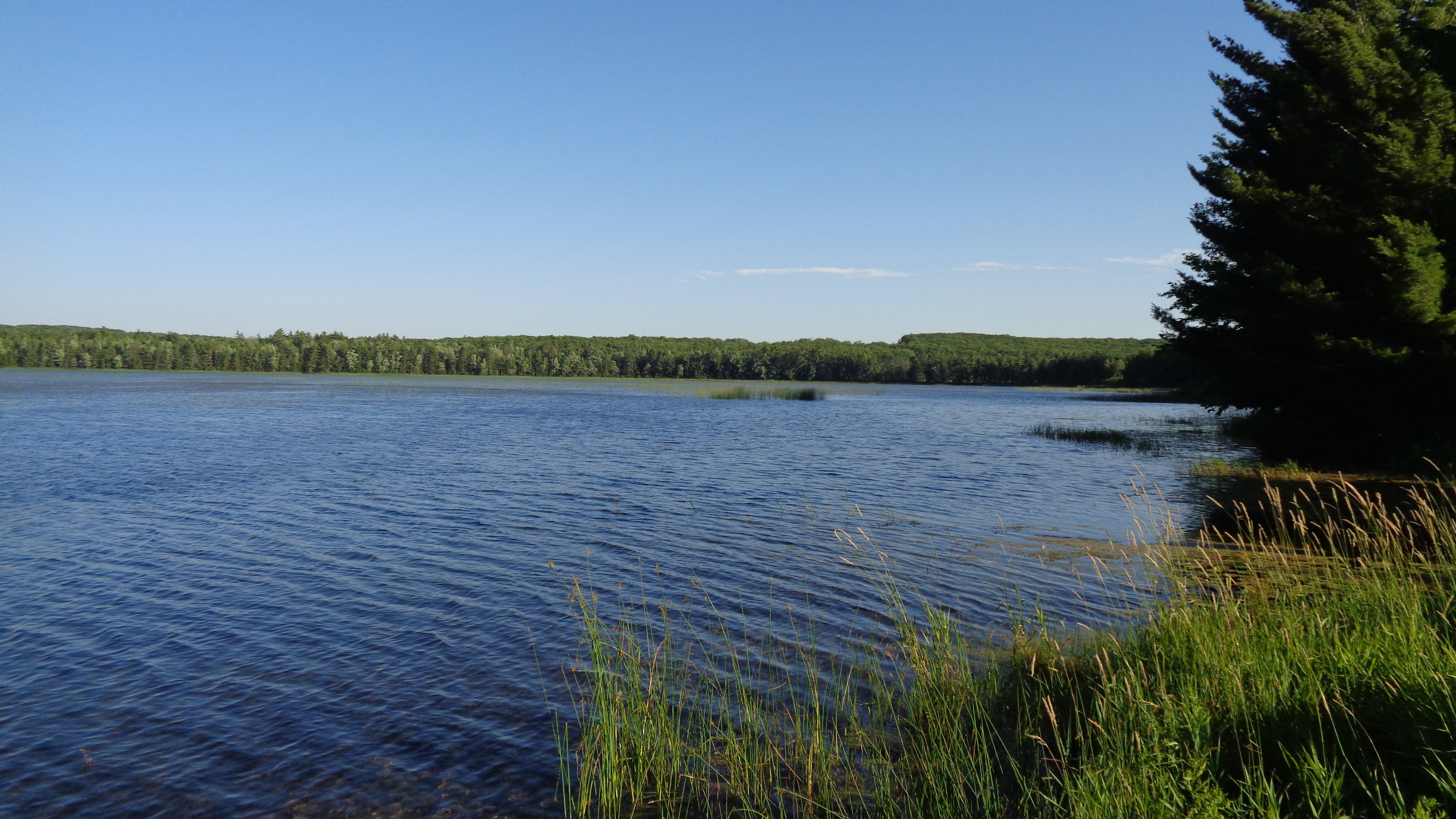 Depicted place: Marl Lake